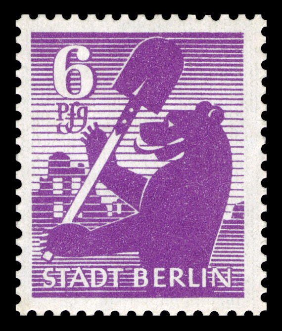 series of stamps of Berlin and Potsdam Ausgabepreis: 6 Pfennig First Day of Issue / Erstausgabetag: 18. Juli 1945 Michel-Katalog-Nr: 2A (Groß Berlin und OPD Potsdam)